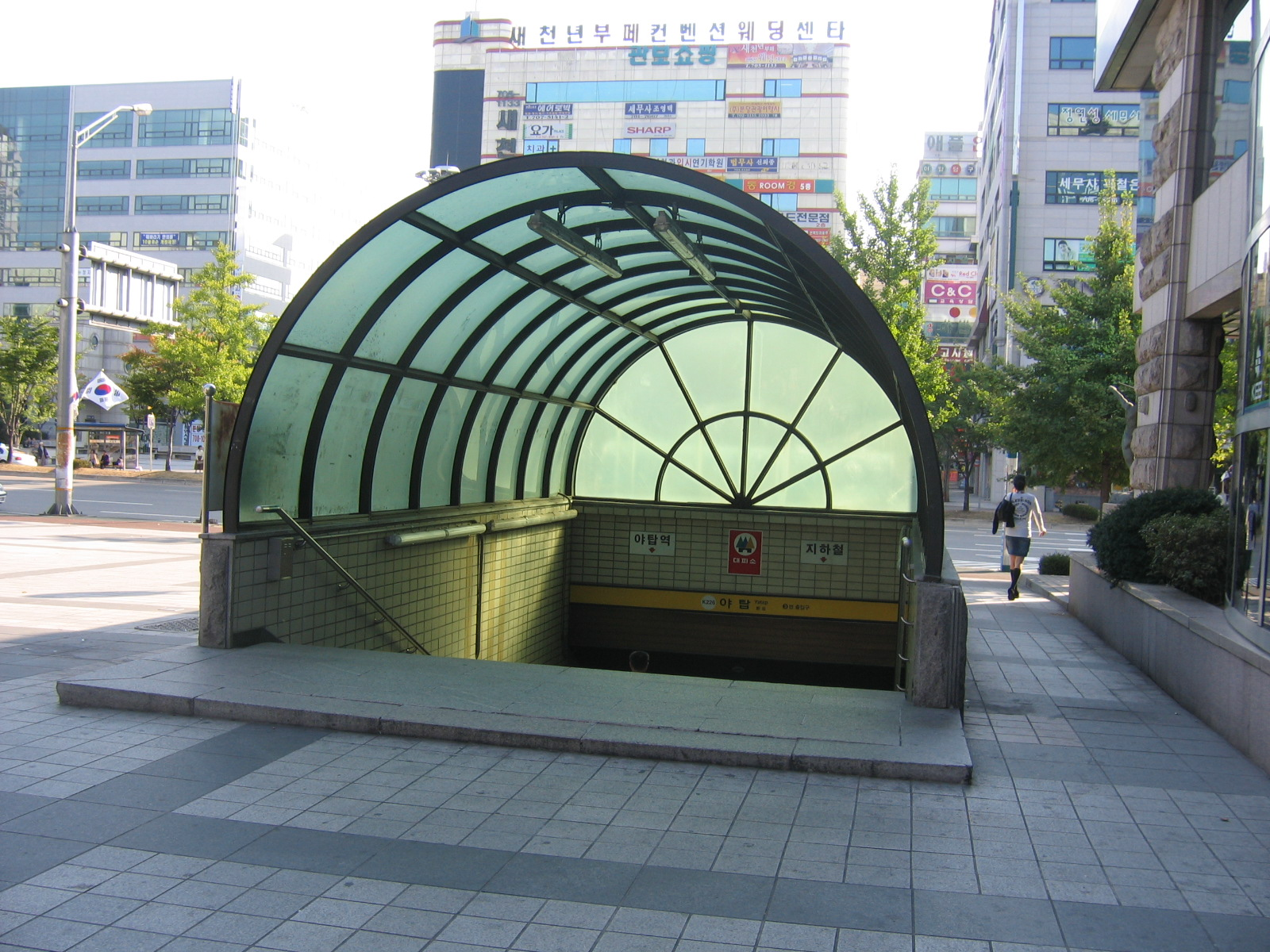 Korea National Subway Bundang Line YaTop Station